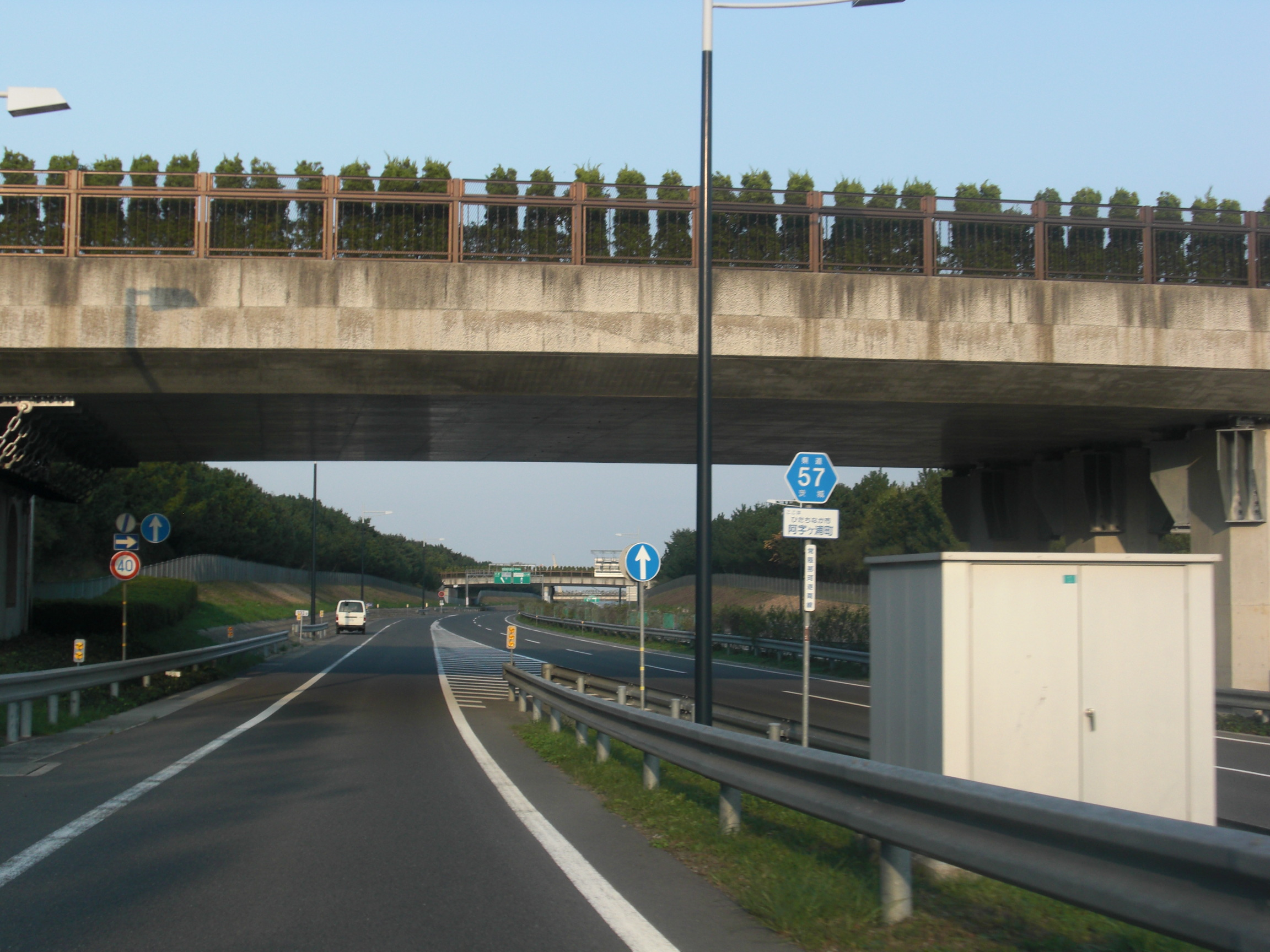 Hitachi Kaihinkoen Interchange on the Hitachinaka Toll Road (part of the Ibaraki Prefectural road Route 57) in Ajigaura-cho, Hitachinaka City, Ibaraki Prefecture, Japan